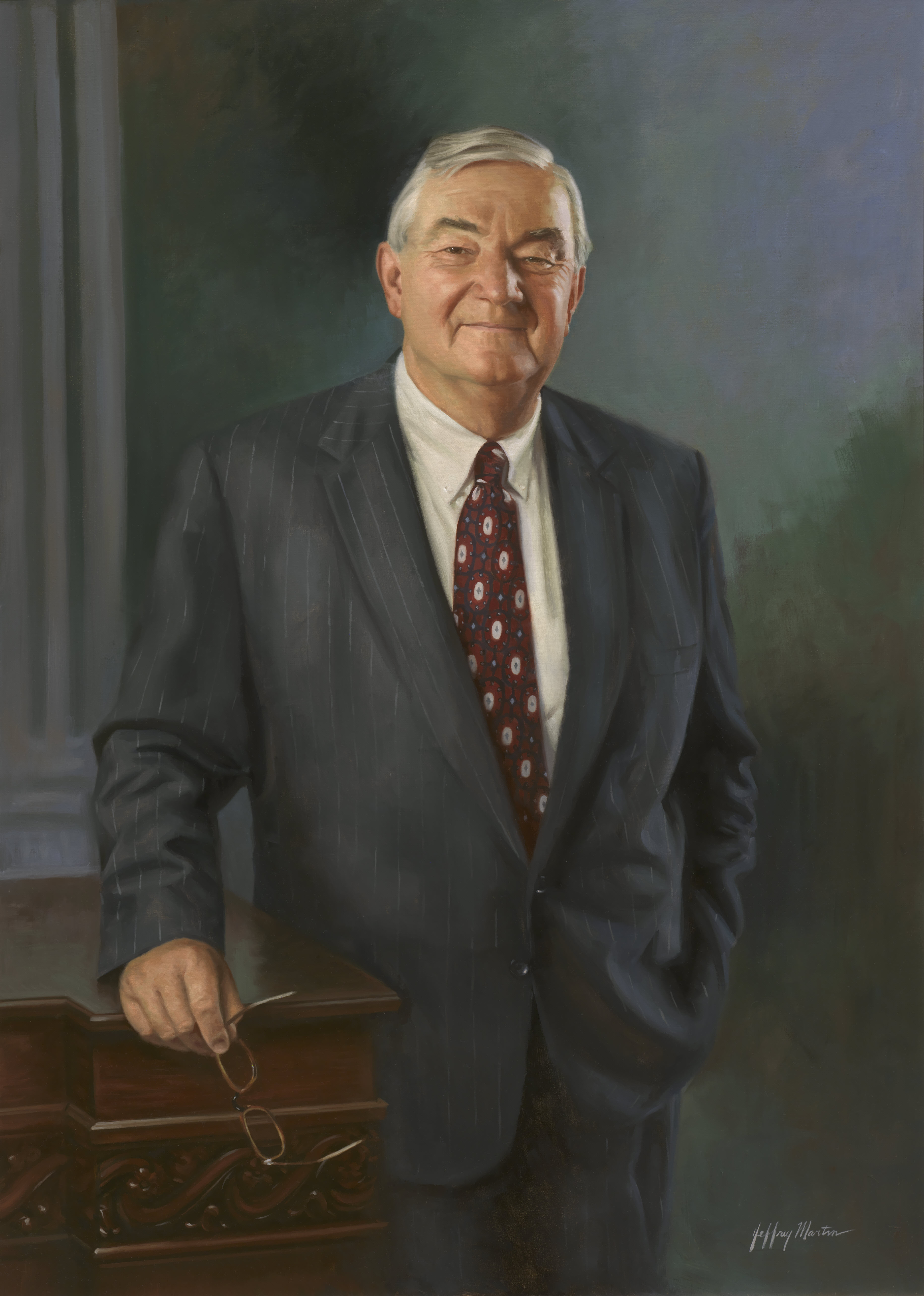 Charlie Rose, member of the United States House of Representatives from North Carolina